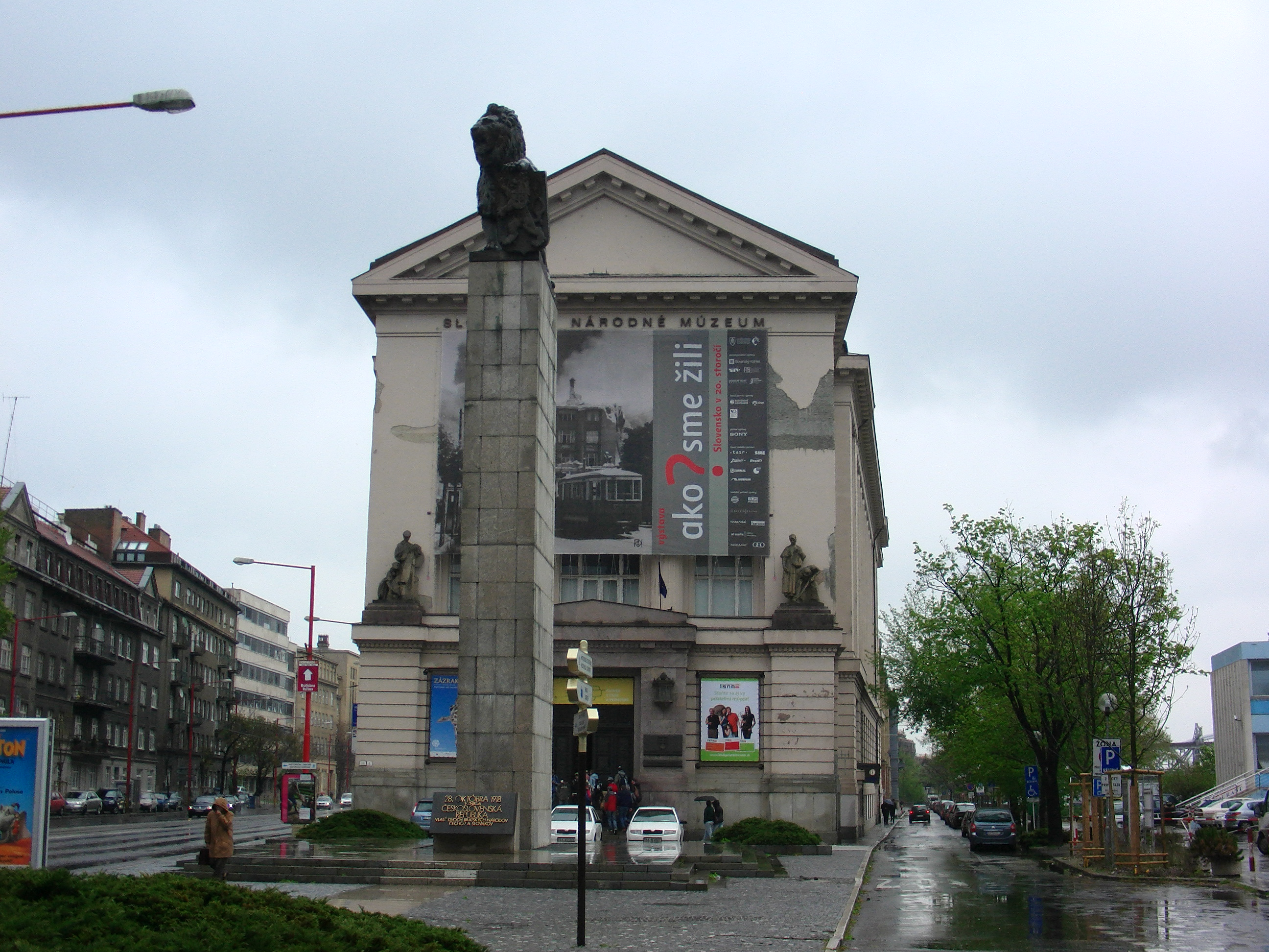 Close up of the Slovak National Museum in Bratislava, Slovakia.